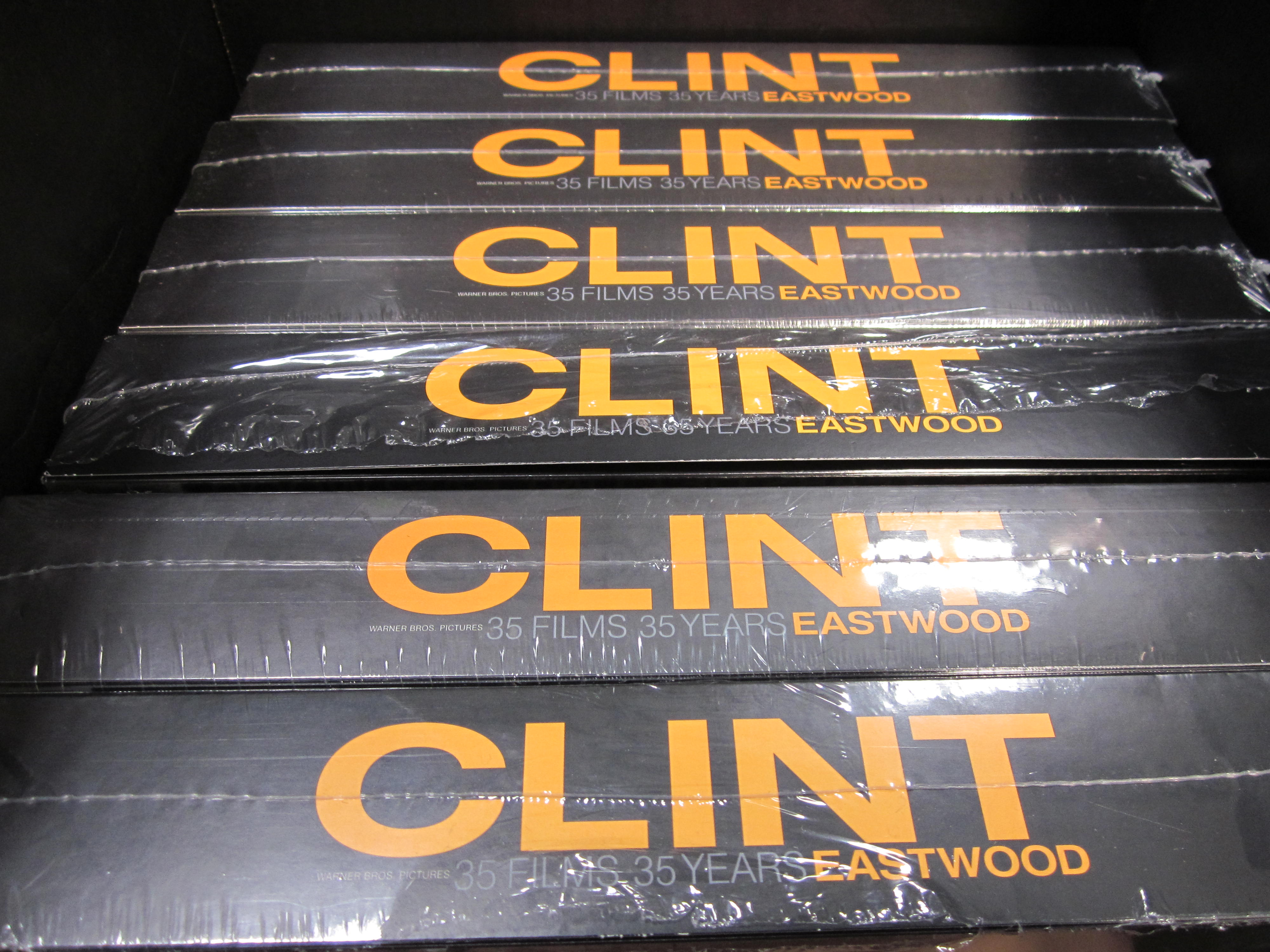 A DVD box set of various Clint Eastwood movies at Costco in South San Francisco, California on El Camino Real.